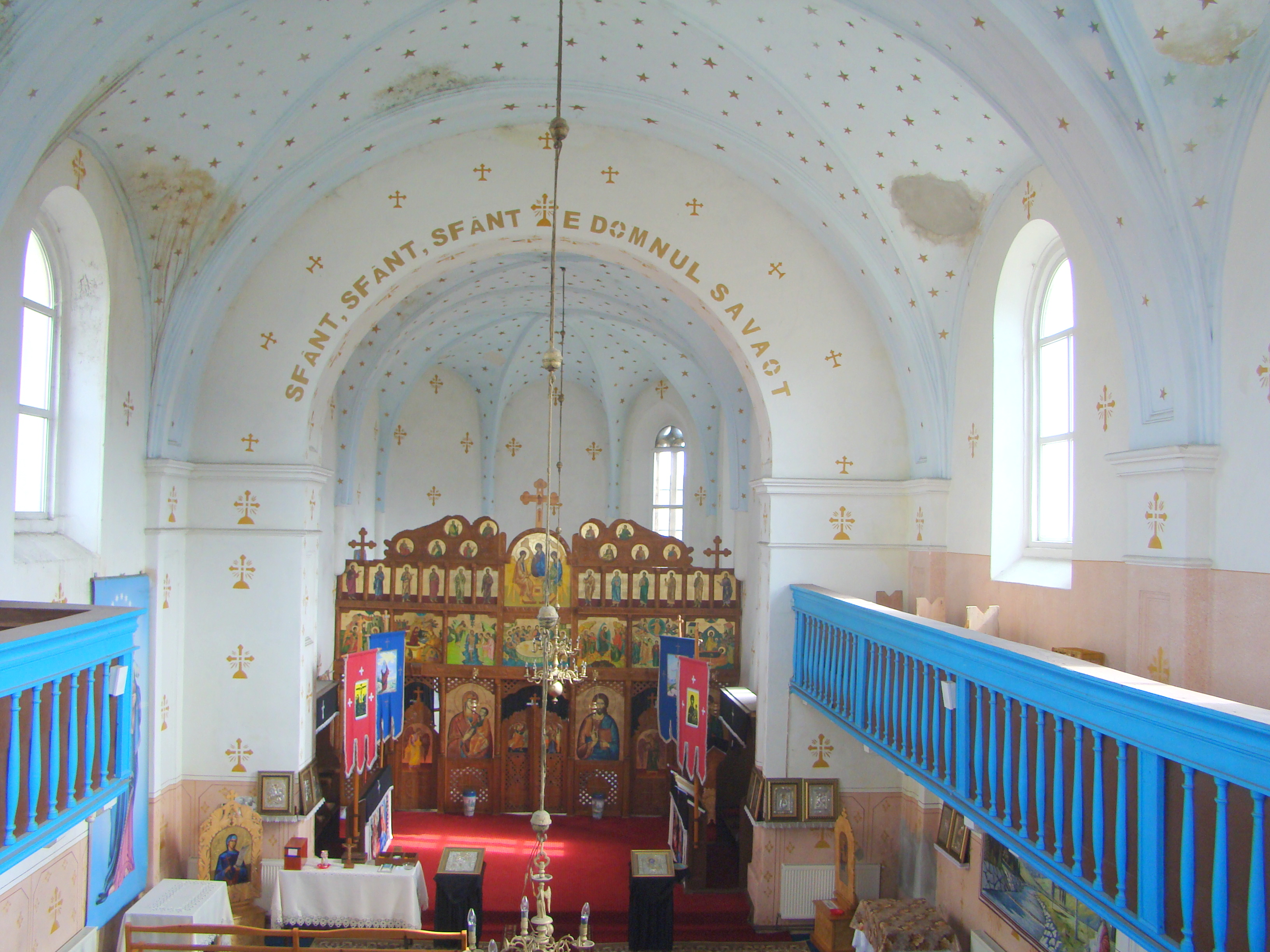 Saint Demetrius church in Crainimăt, Bistrița-Năsăud county, Romania